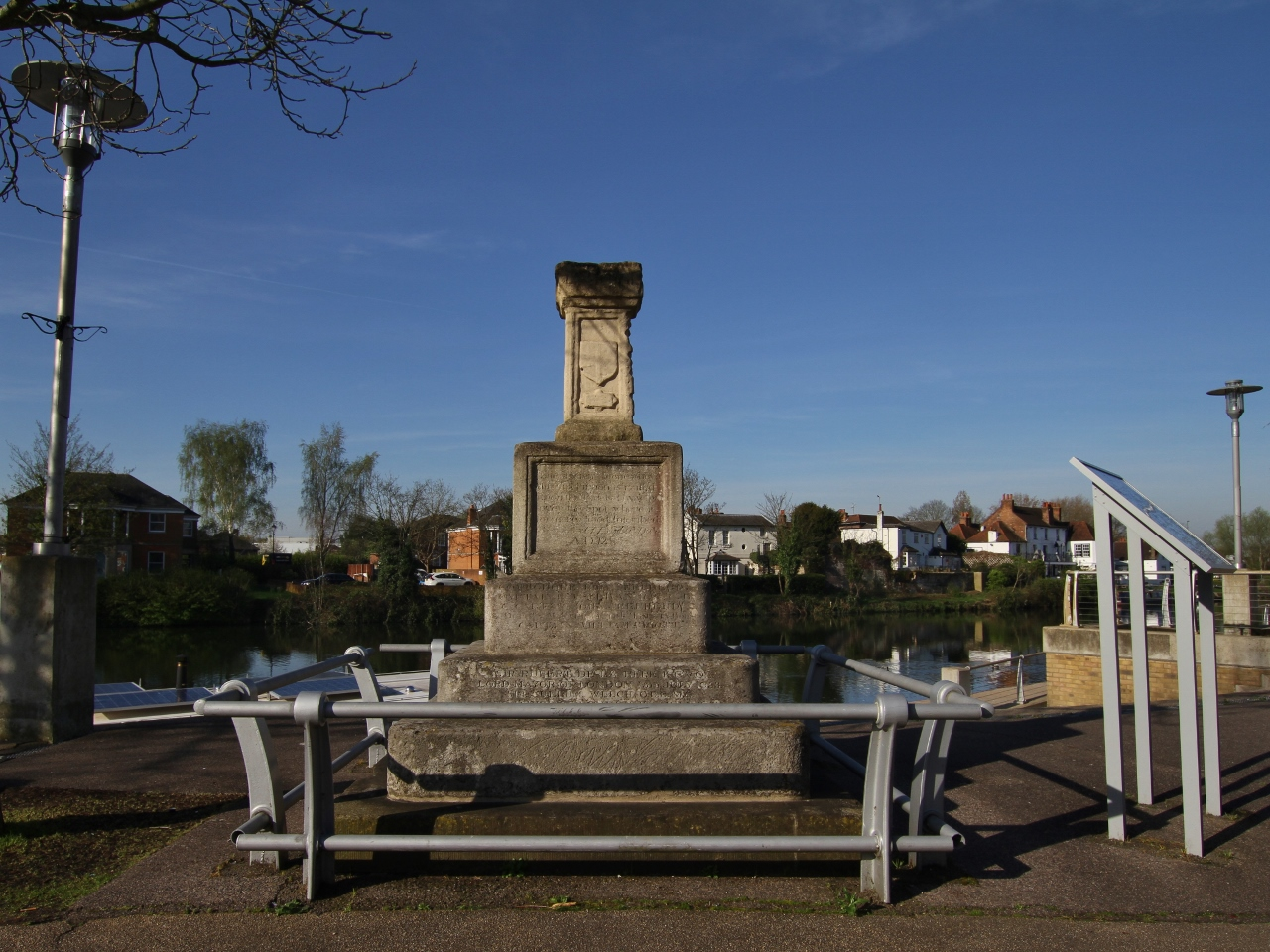 The London Stone, Staines, Middlesex (now Surrey), seen from east north-east. Behind it is the River Thames. The houses on the far bank are at Egham Hythe.